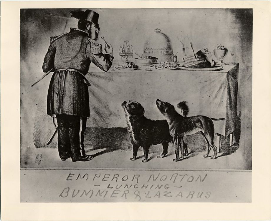 Three Bummers